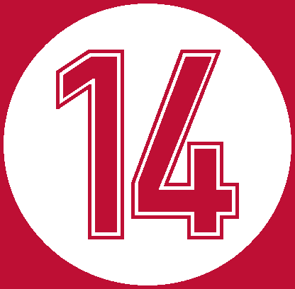 The number "14", retired for Pete Rose by the Cincinnati Reds.